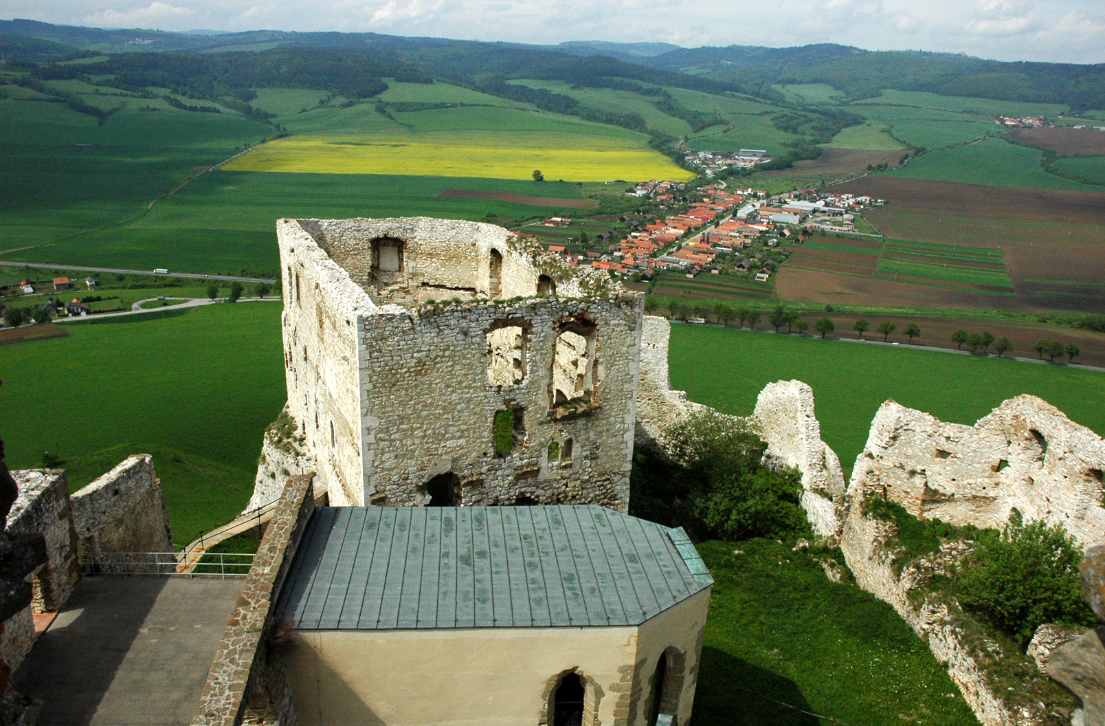 Spiš Castle